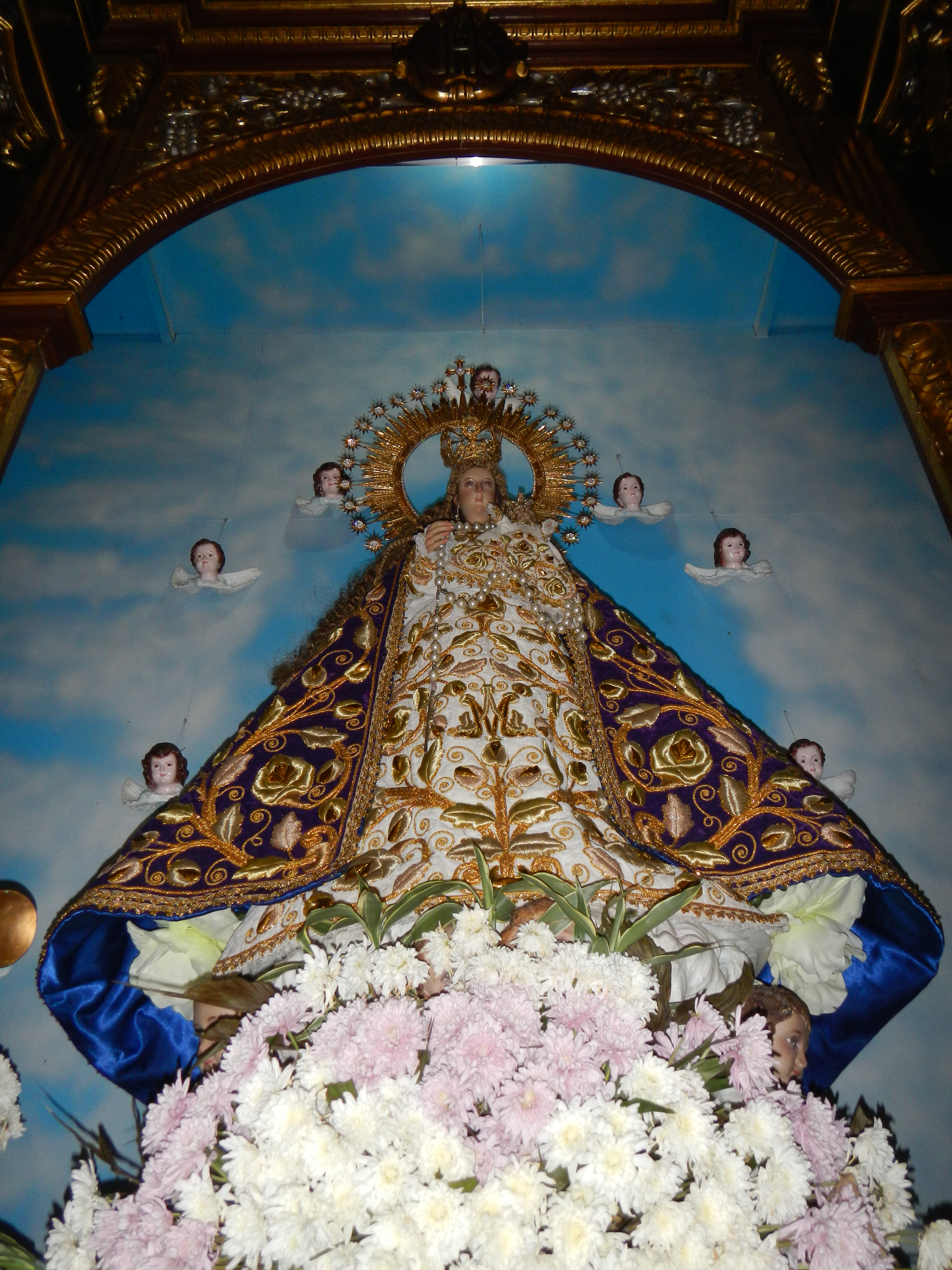 1941 Our Lady of the Most Holy Rosary Parish Church, Makinabang, Baliuag, Bulacan, Vicariate of St. Augustine of Hippo – Roman Catholic Diocese of Malolos, (Dioecesis Malolosina) Suffragan of Manila, Parish Priest is Judicial Vicar: Fr. Winniefred F. Naboya, JCL replacing retired and ailing Parish Administrator, Msgr. Macario R. Manahan, Parish Priest, Vicar Forane is Msgr. Filemon M. Capiral, HP, Tel.: (044) 766-1393, Feast is October 7 [1][2] Coordinates: 14°55'7"N 120°53'10"E Nearby cities: San Fernando City, Pampanga, Balanga City, Mabalacat City, Pampanga[3]